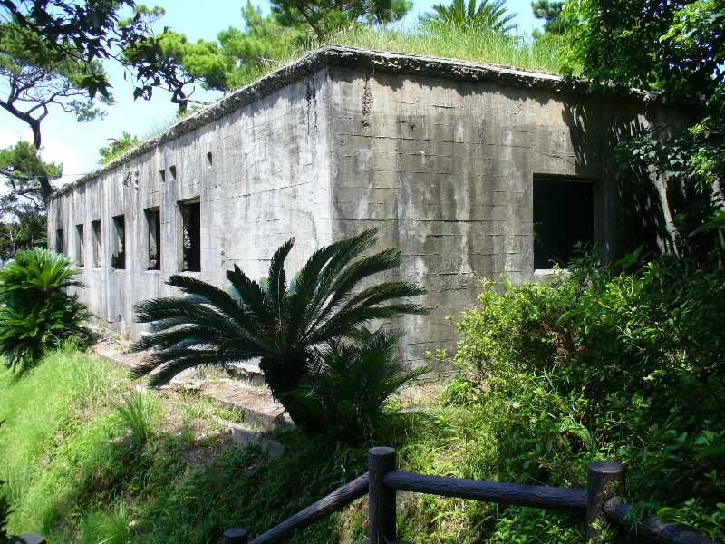 A ruin of Kanekotezaki observation post at Ankyaba battery Kakeroma island Setouchi town Kagoshima prefecture, Japan.